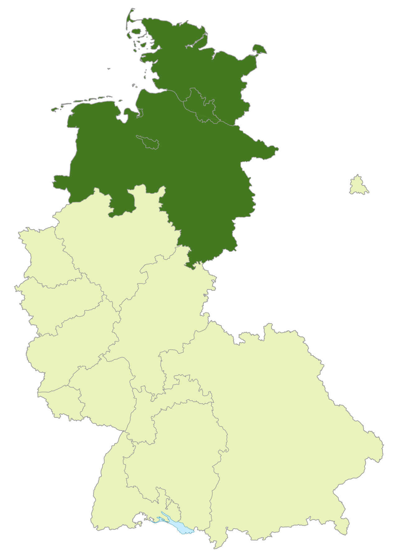 Germany's Regional Soccer Association of Norddeutschland,1947-1990